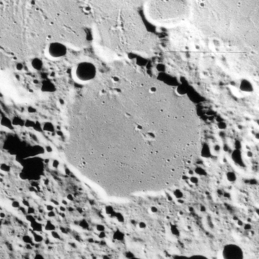 Oblique view of Gernsback crater, on the moon. Taken by Apollo 15 mapping camera just after trans-Earth injection.